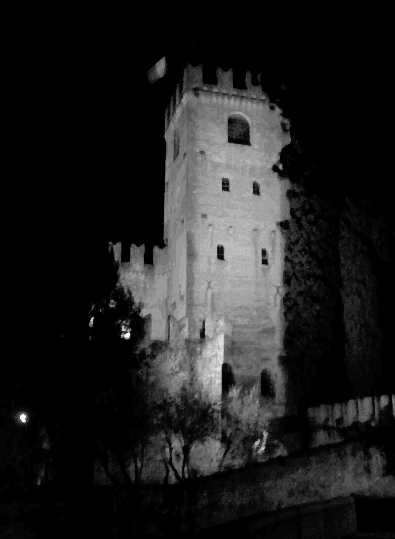 Conegliano: Castle by night